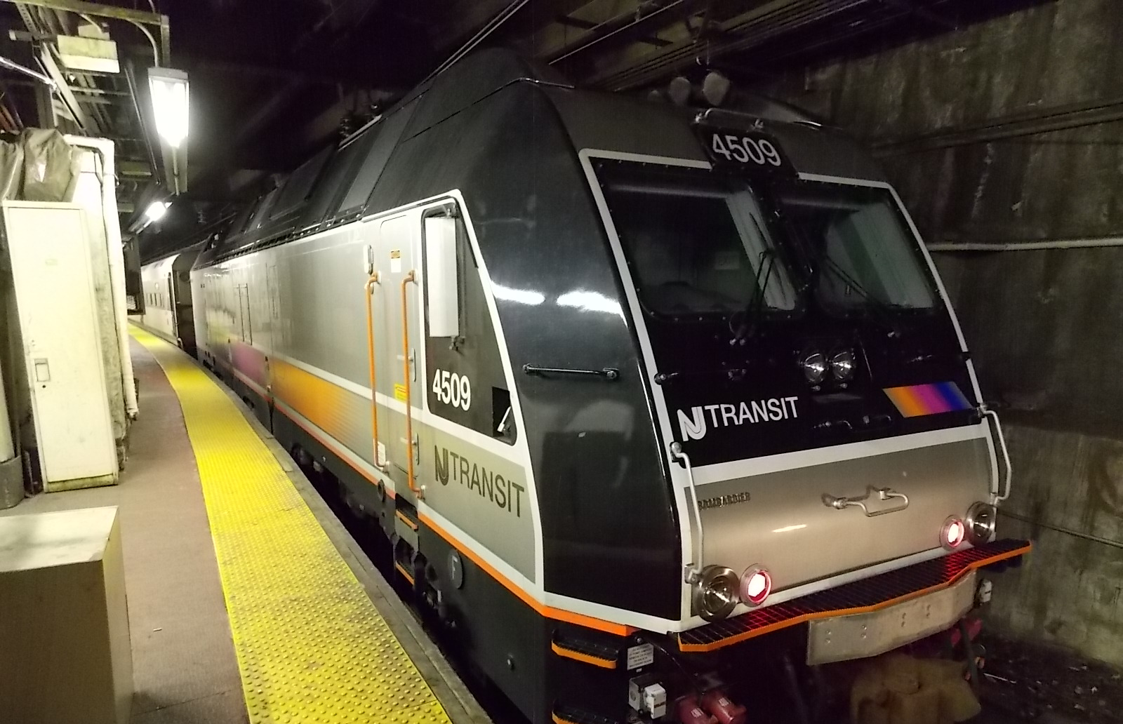 First major day of dual mode locomotive operations into NYP.